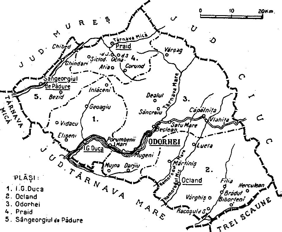 Map of Odorhei interwar county, Kingdom of Romania (1938).